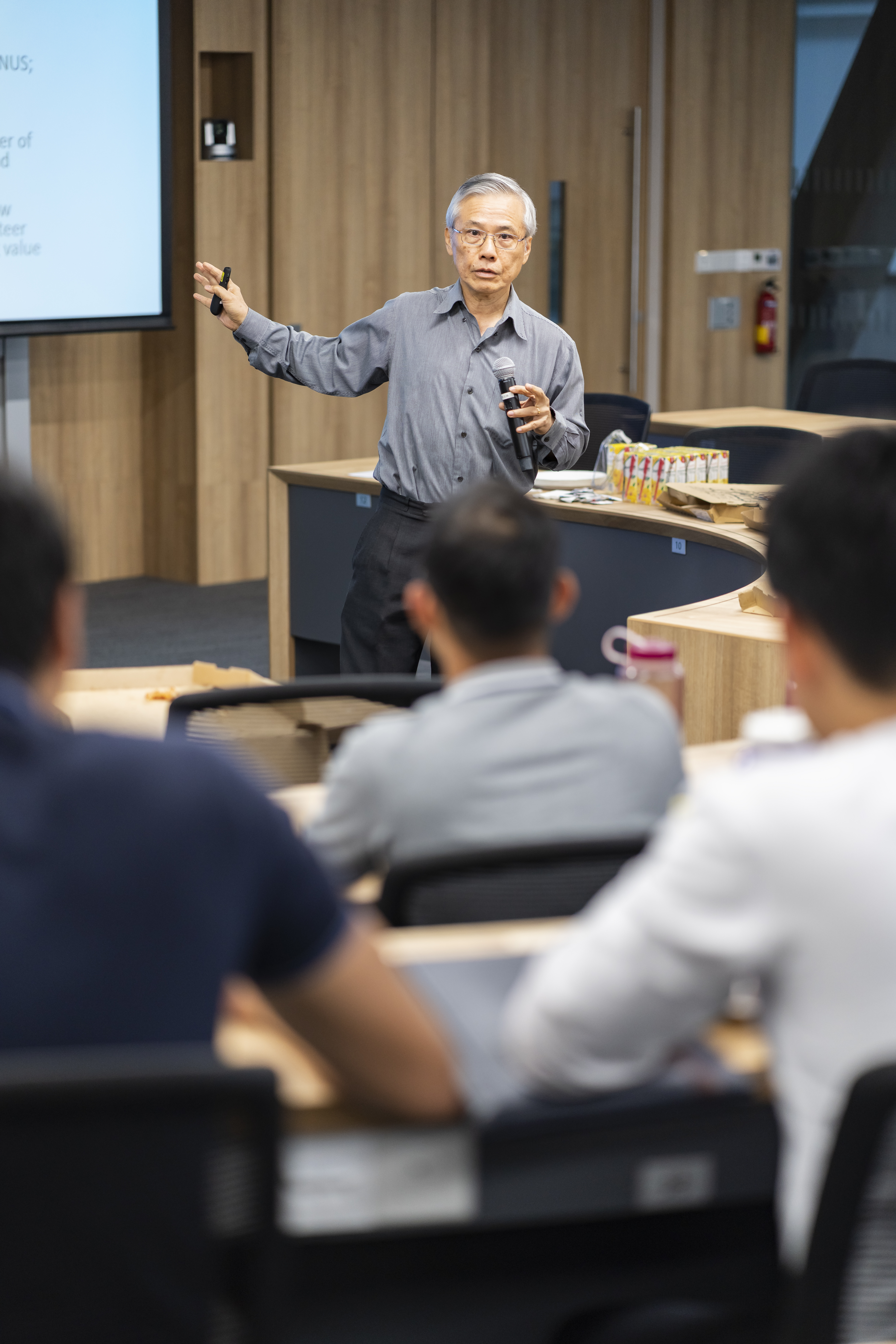 ho peng kee speaking at smu school of law